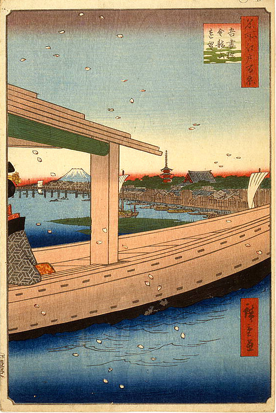 Part of the series One Hundred Famous Views of Edo, no. 039, part 1: Spring.